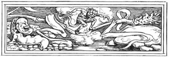 illustration of the Brothers Grimm fairy tale "The Straw, the Coal, and the Bean"